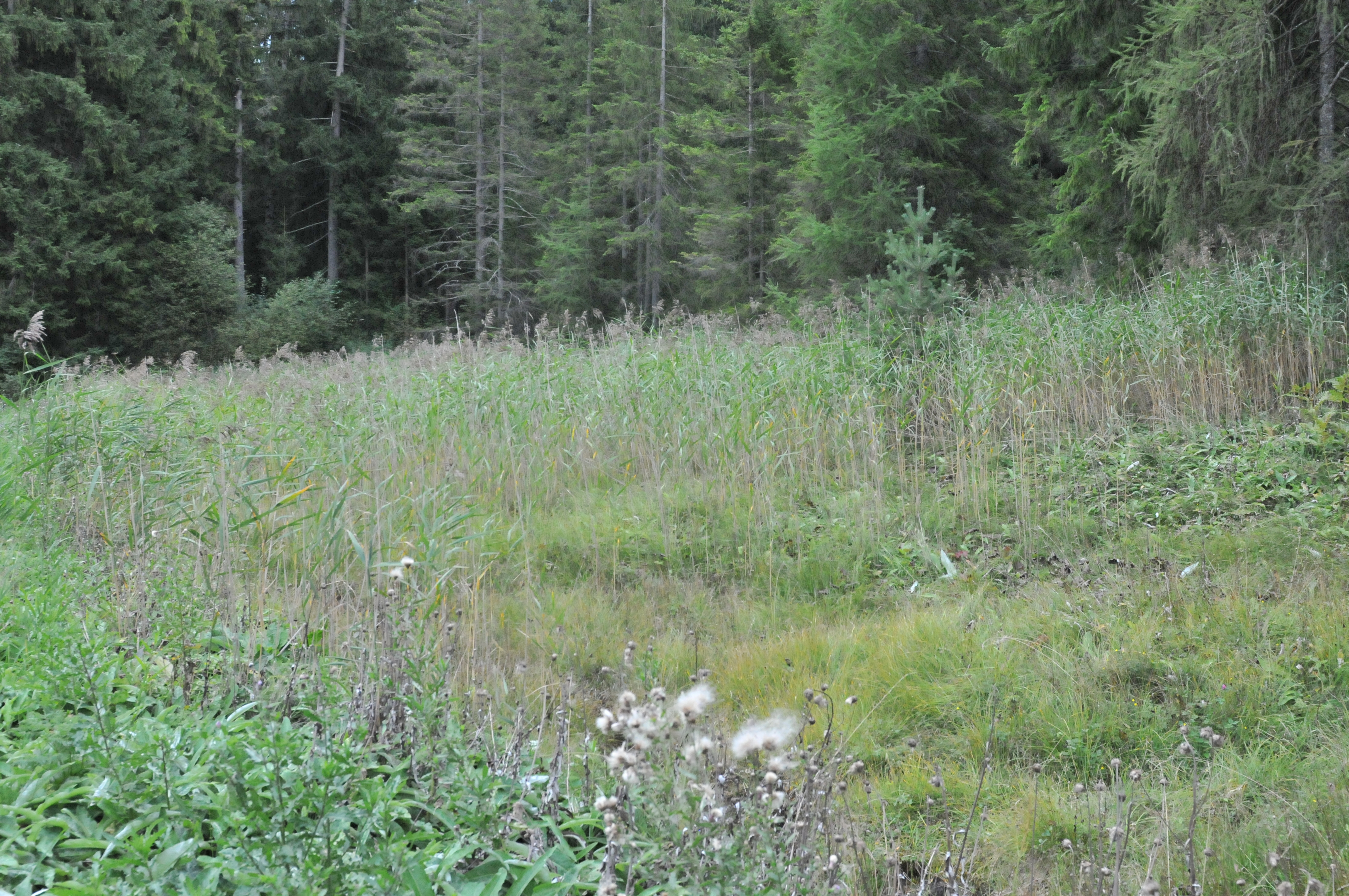 The Ödenmoos, a low moor near Toblach